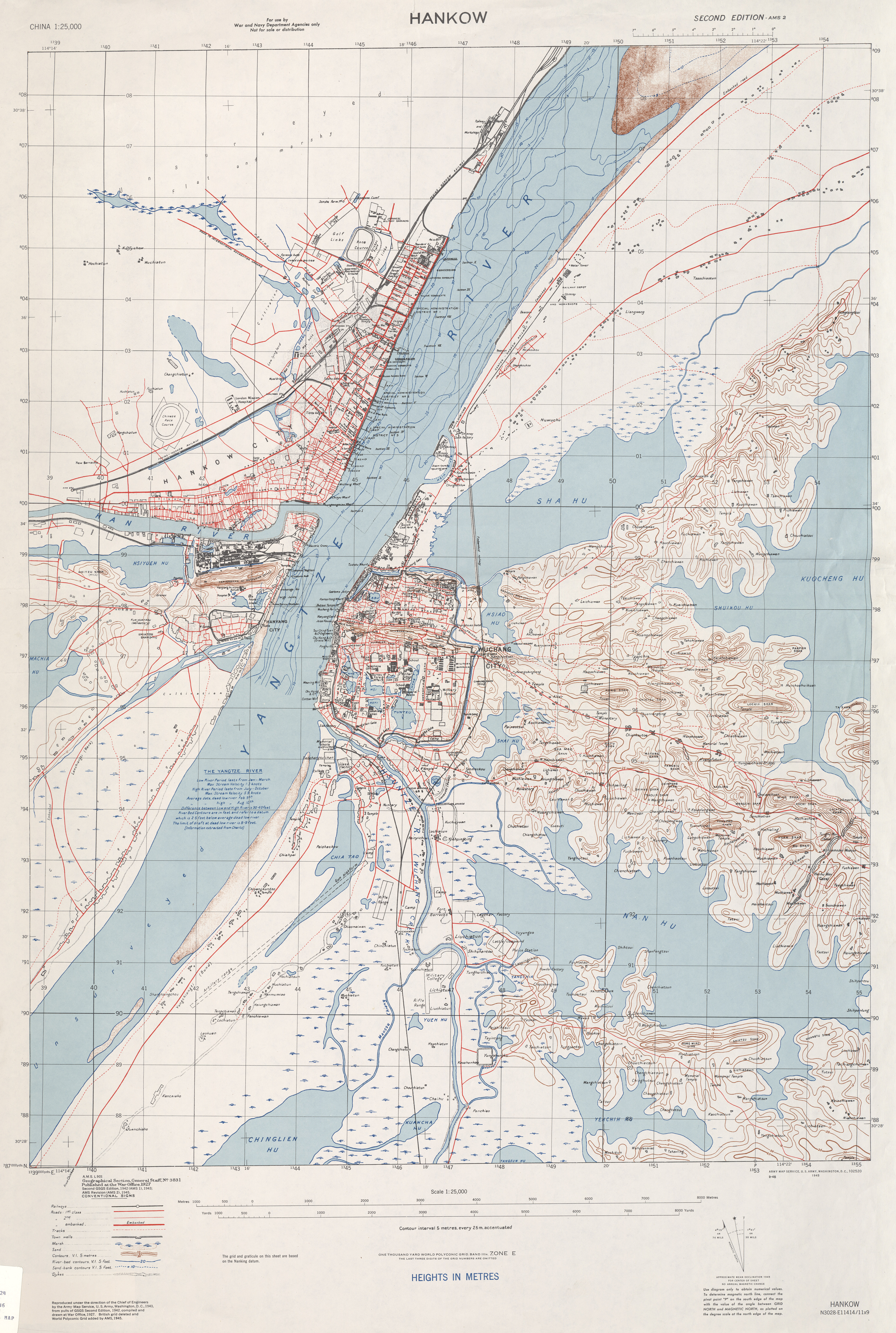 Map of Hankow